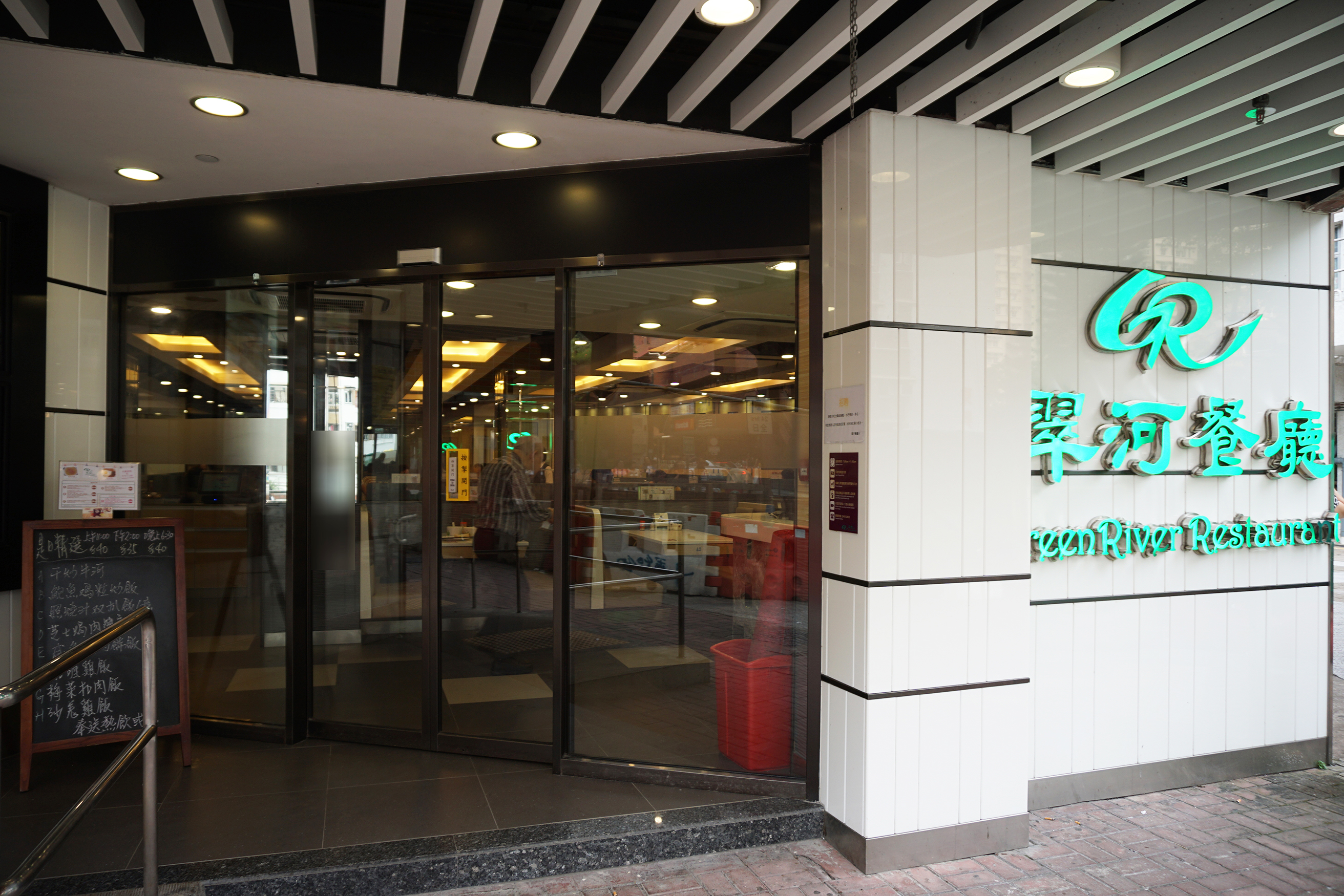 Lei Tung Commercial Centre in Ap Lei Chau, Hong Kong.